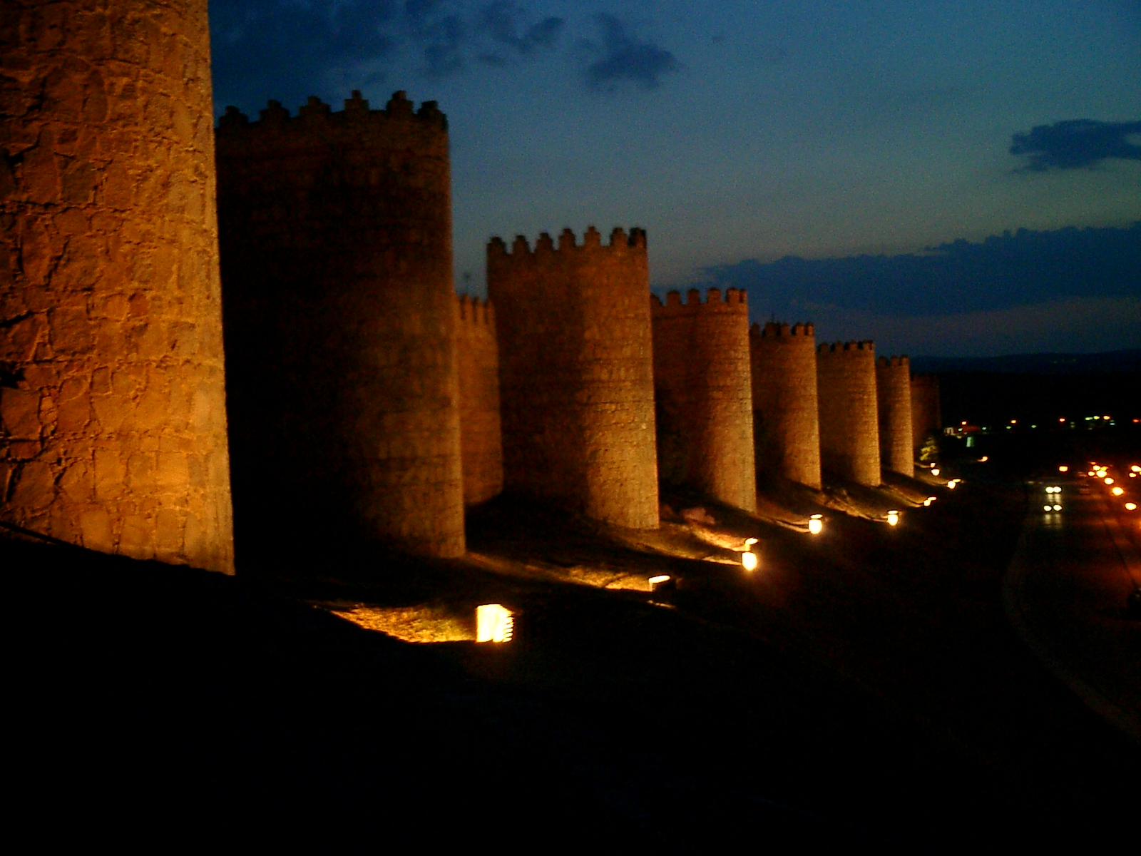 Walls of Ávila, Ávila, Spain